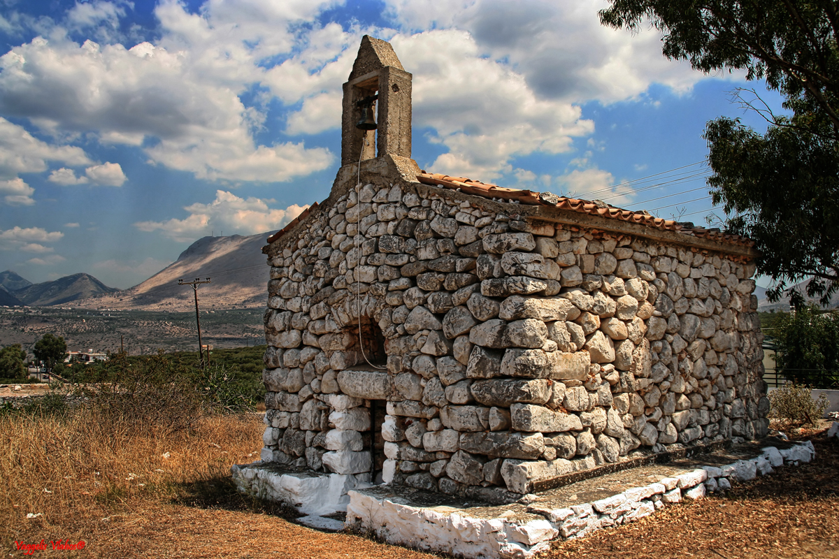 Mani - Hellas - Greece